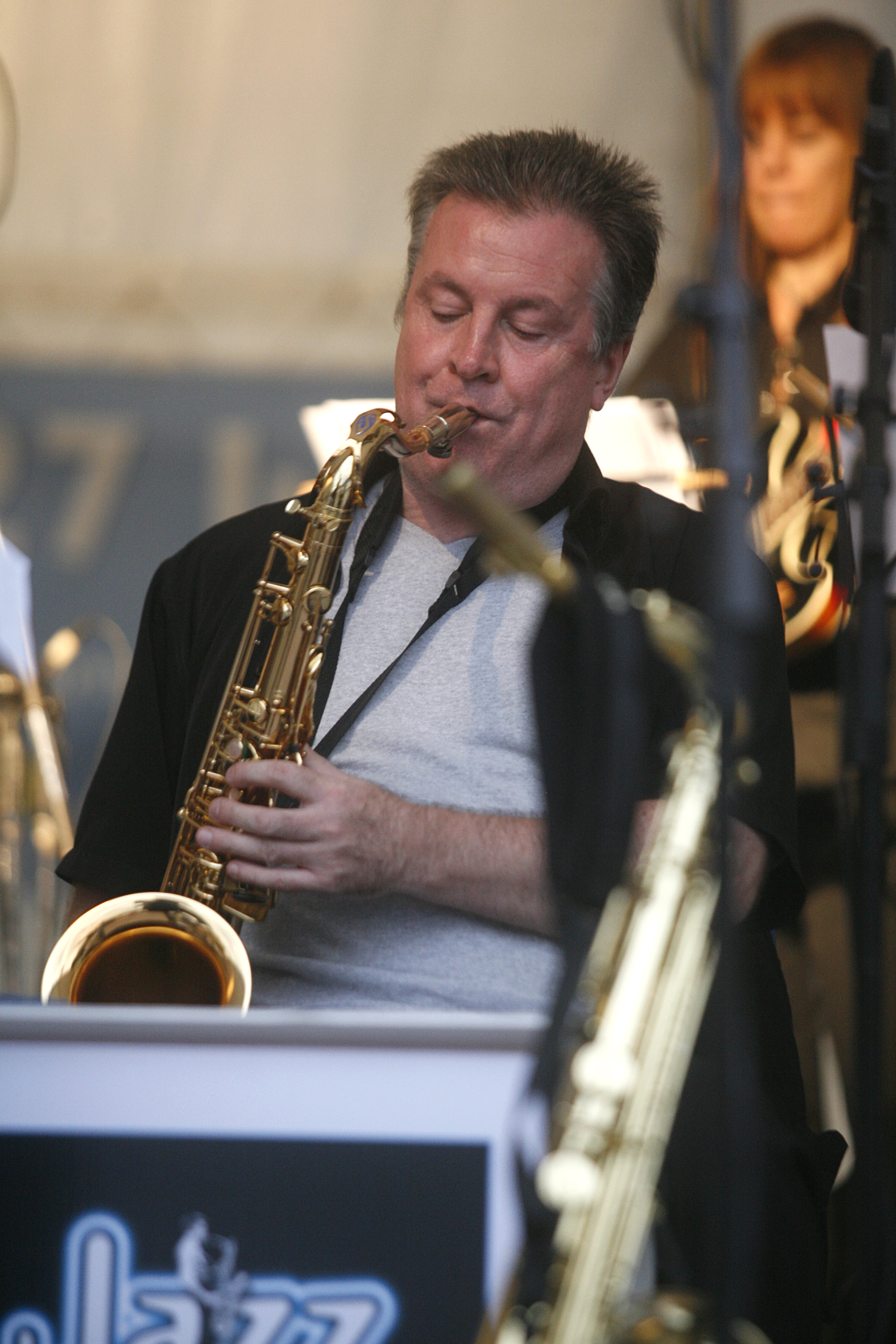 Gary Barnacle playing with Big Band at Rochester Cstle in 2011.